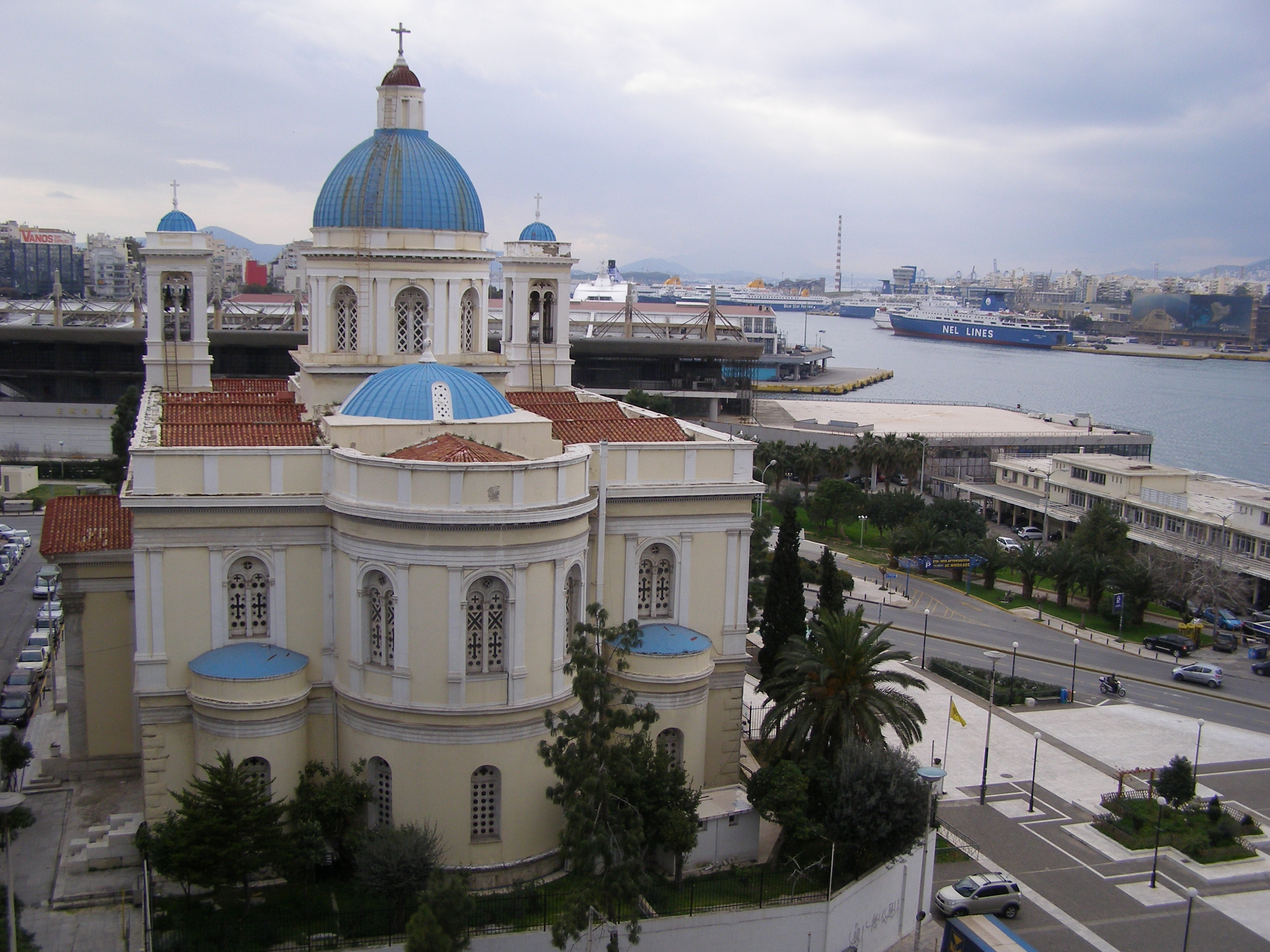 Piraeus - St. Nicholas church